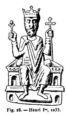 Henry I of France